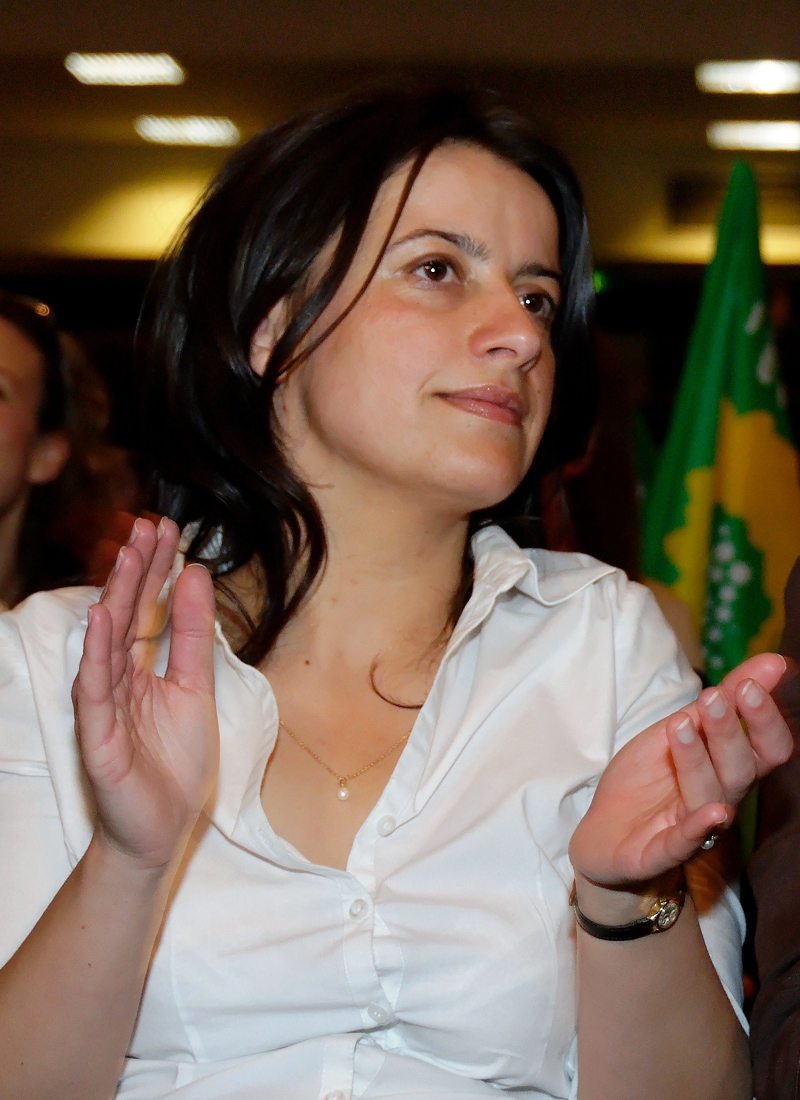 Cécile Duflot at a meeting held on Apr. 5, 2007 by the French Greens Party at the Palais de la Mutualité in Paris.